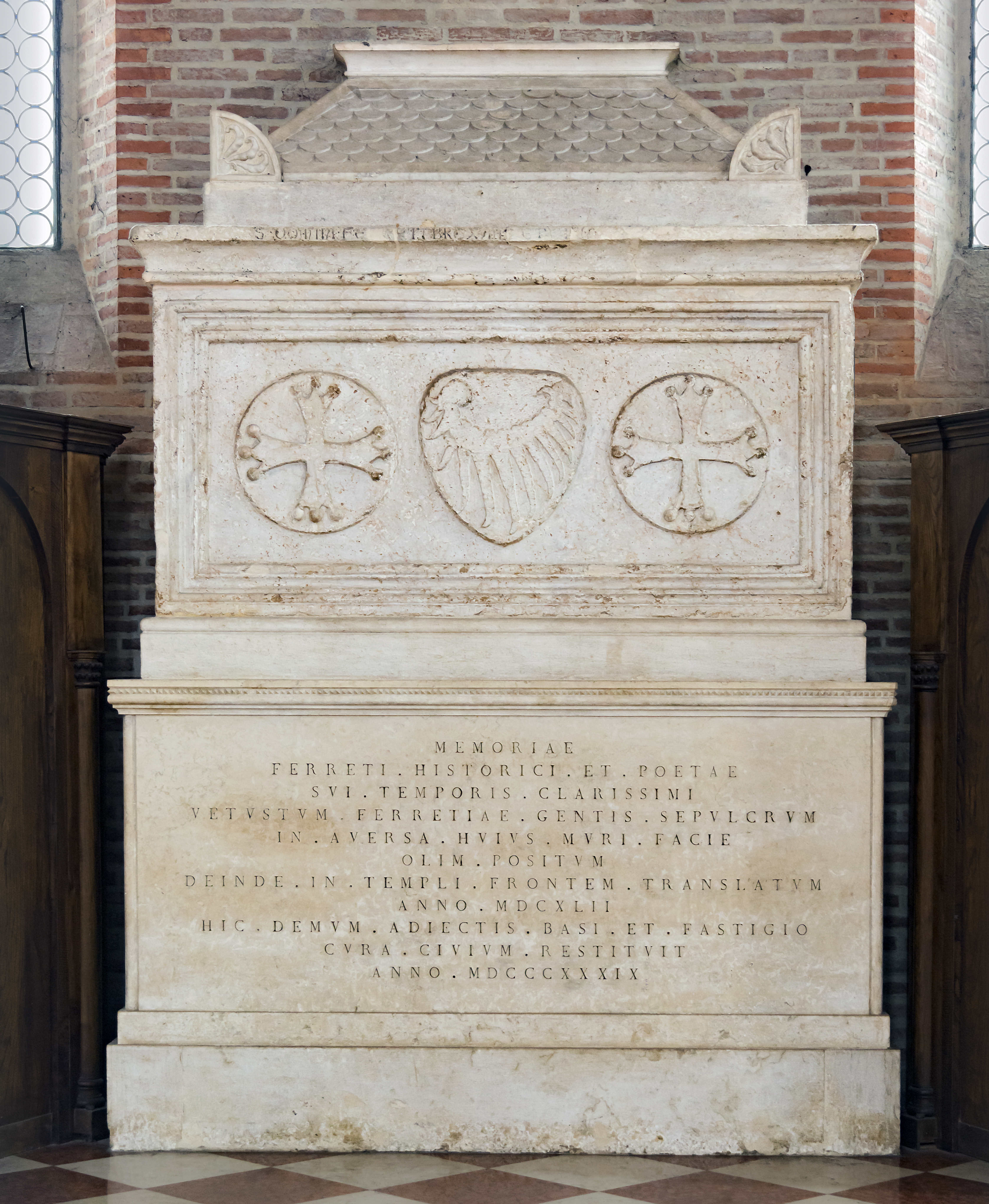 Church San Lorenzo in Vicenza - Nave right - Altar Gualdo - Wall of the second span the tomb of the scholar and historian Vicente Ferreto de'Ferreti, buried in a sarcophagus of the thirteenth century.